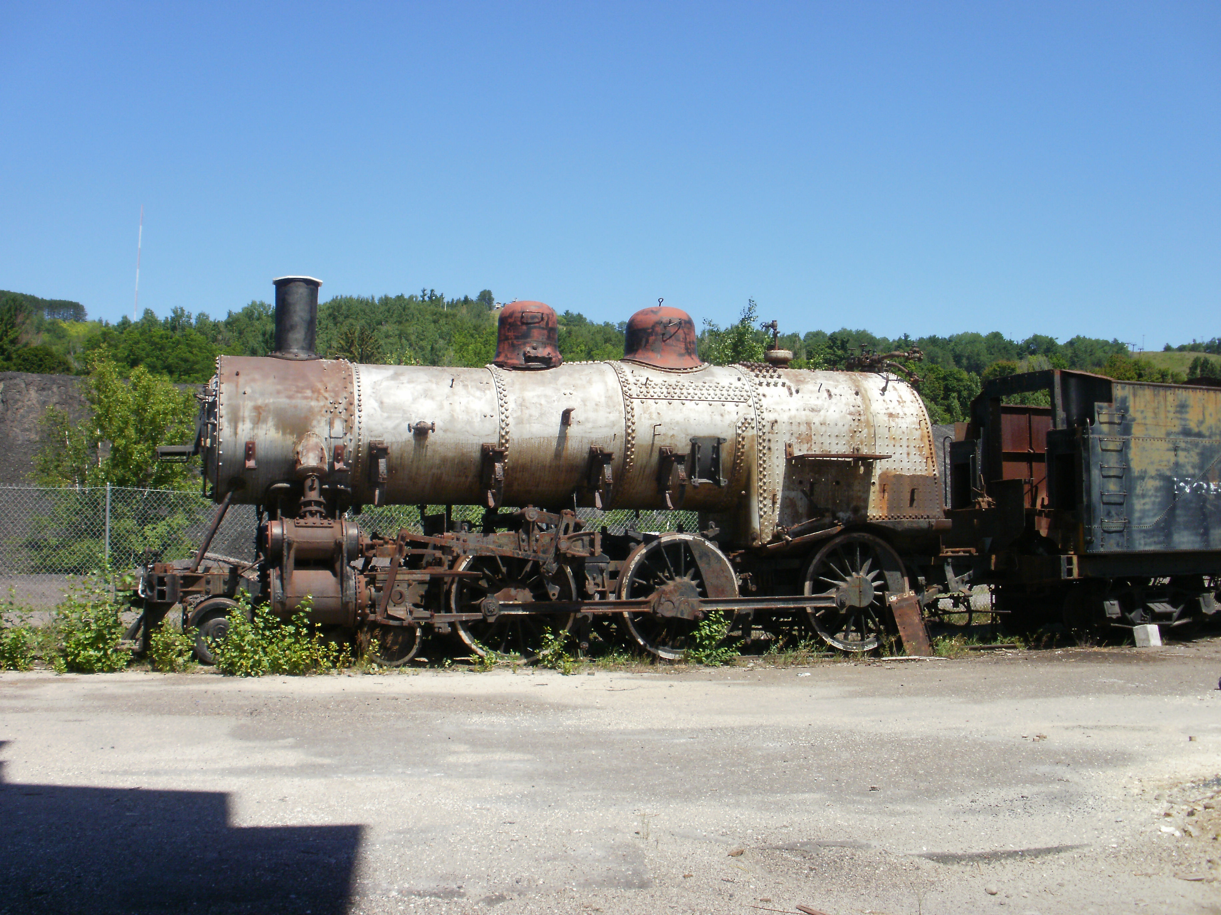 Quincy Smelter - CNW 175 locomotive a bit north of the Britquetting Plant and limestone bins. Looking north. Note: probably from 2012 or 2015, the file has conflicting date info. The locomotive was moved to Owosso, Michigan, in June 2018. ("Ol’ CNW 175 moving down track downstate", The Daily Mining Gazette, Feb 3, 2018, "Rare locomotive from Michigan's mining past finds new home", , June 13, 2018)